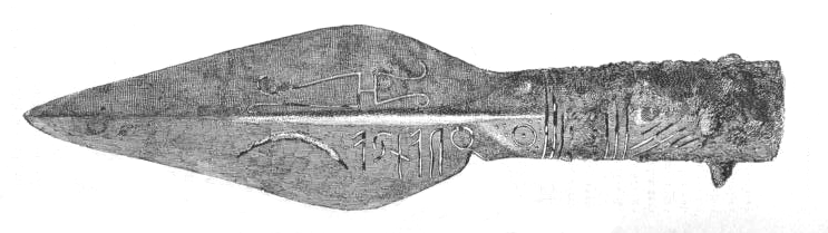 A drawing of the Spearhead of Müncheberg from 1887.